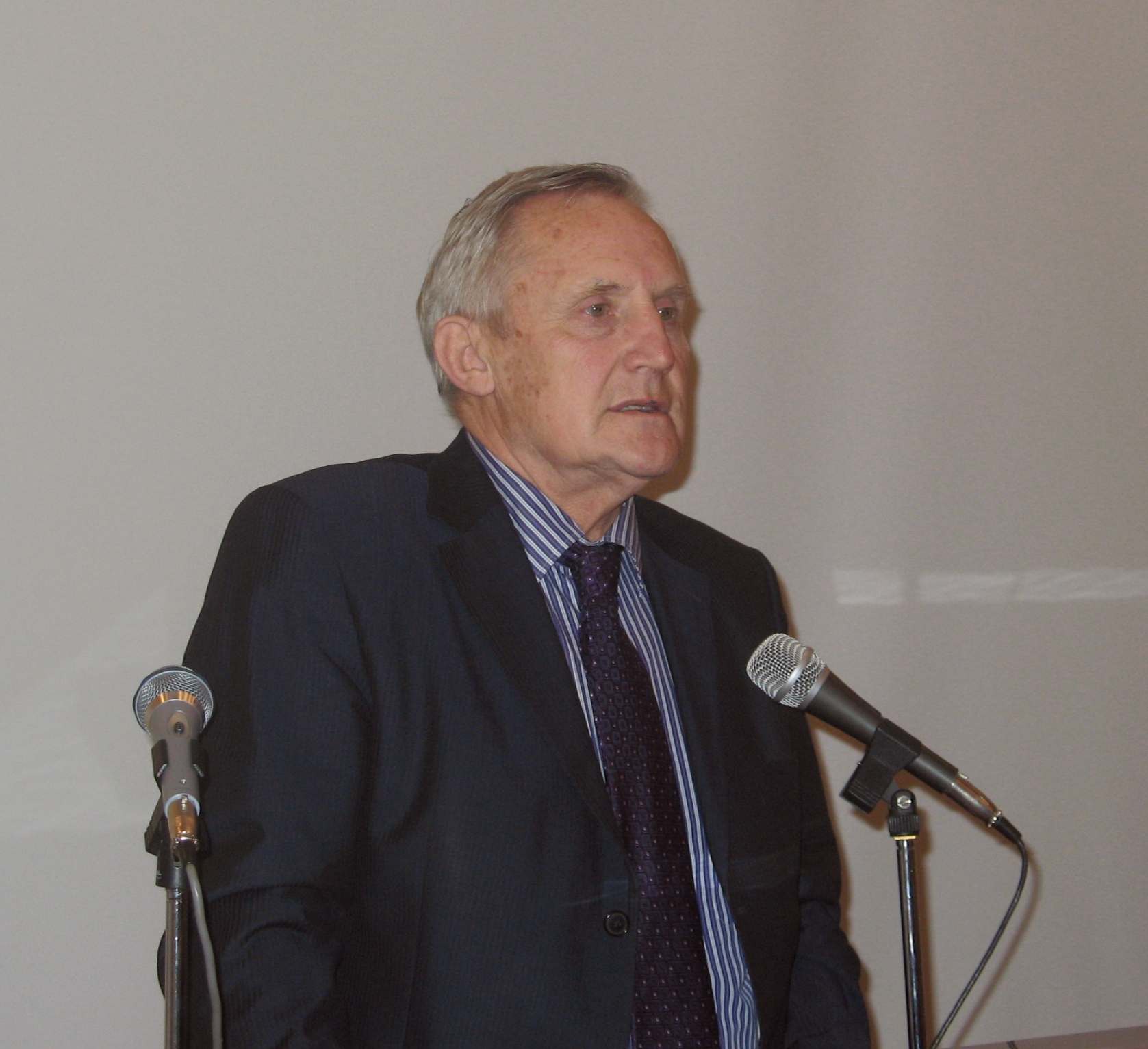 Prof. Vladislav Zakharevich, the rector of the Southern Federal University, Russia